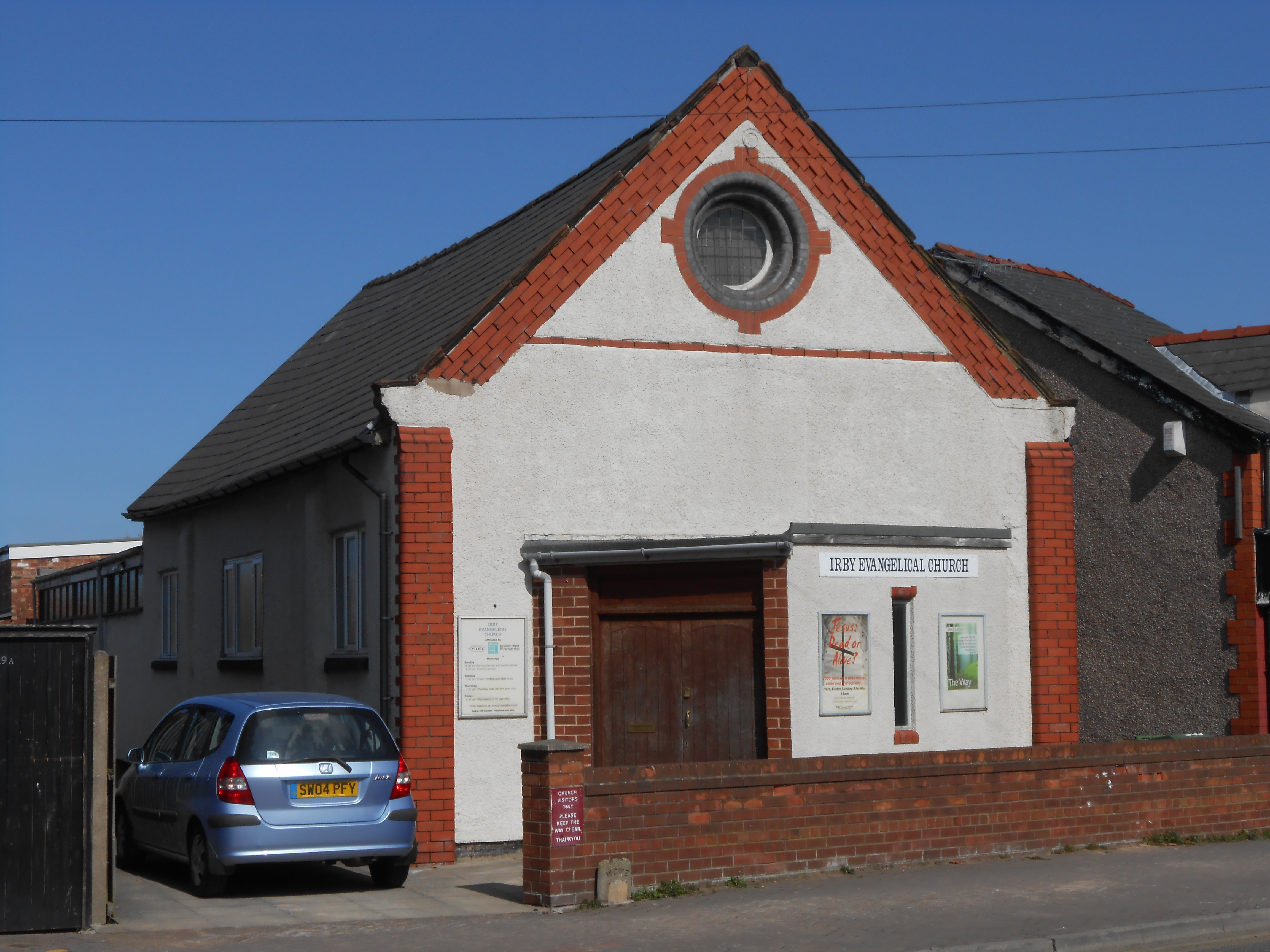 Irby Evangelical Church, Thingwall Road, Irby, Wirral, Merseyside, England.